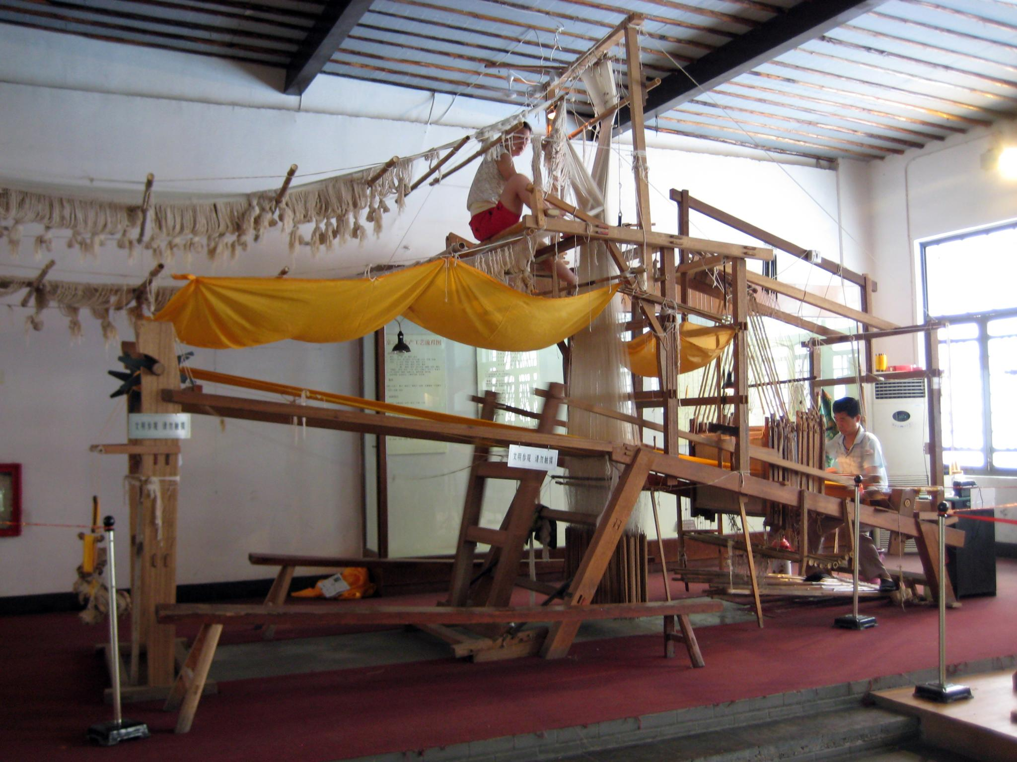 It takes a huge loom and two people running it to weave these fabric patterns.